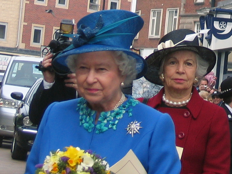 Queen Elizabeth II during a visit to Wakefield Cathedral for the Maundy money Ceremony.